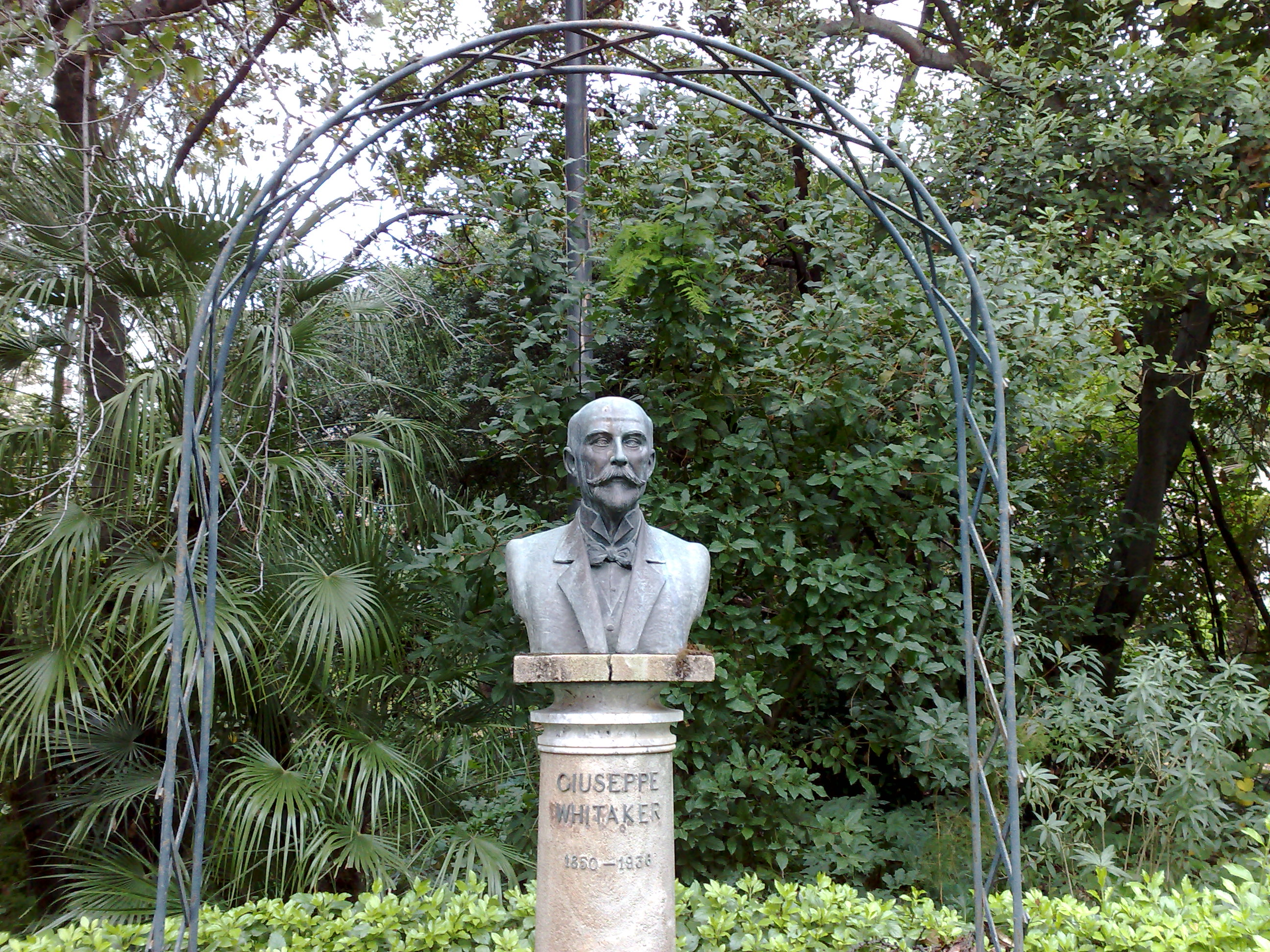 Joseph Whitaker, Villa Malfitano (Palermo)